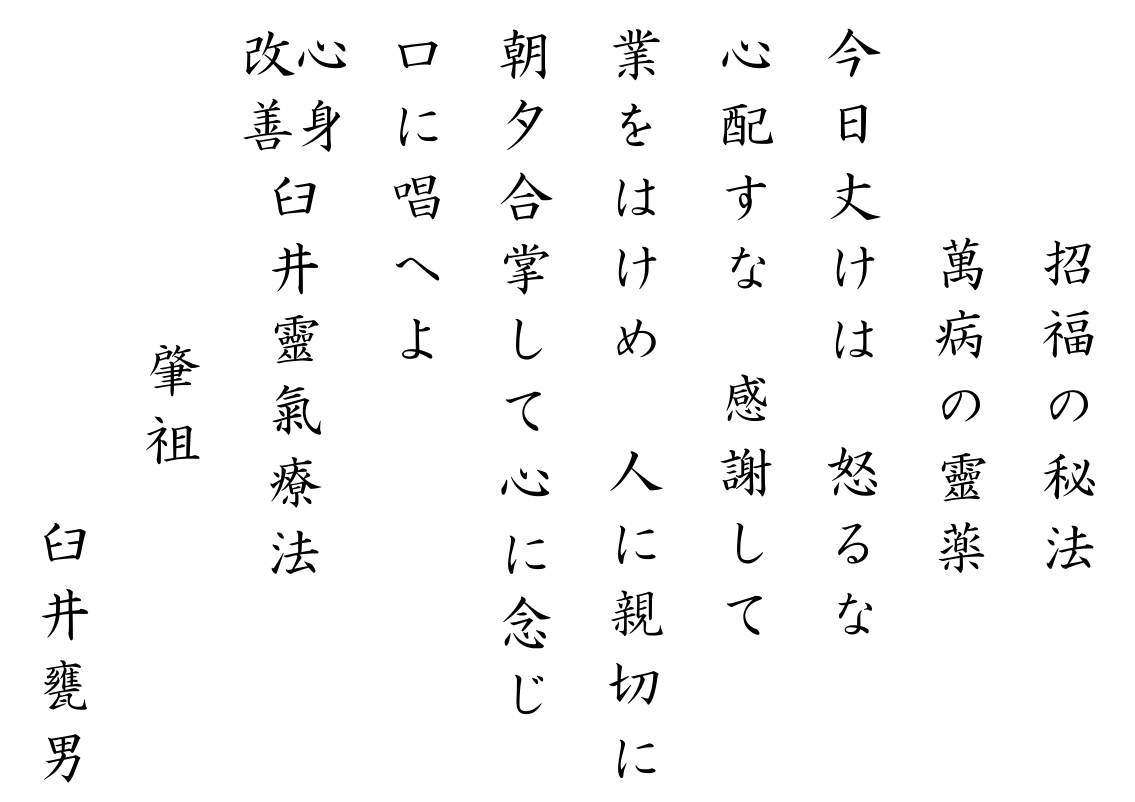 Gokai - The concepts of Mikao Usui